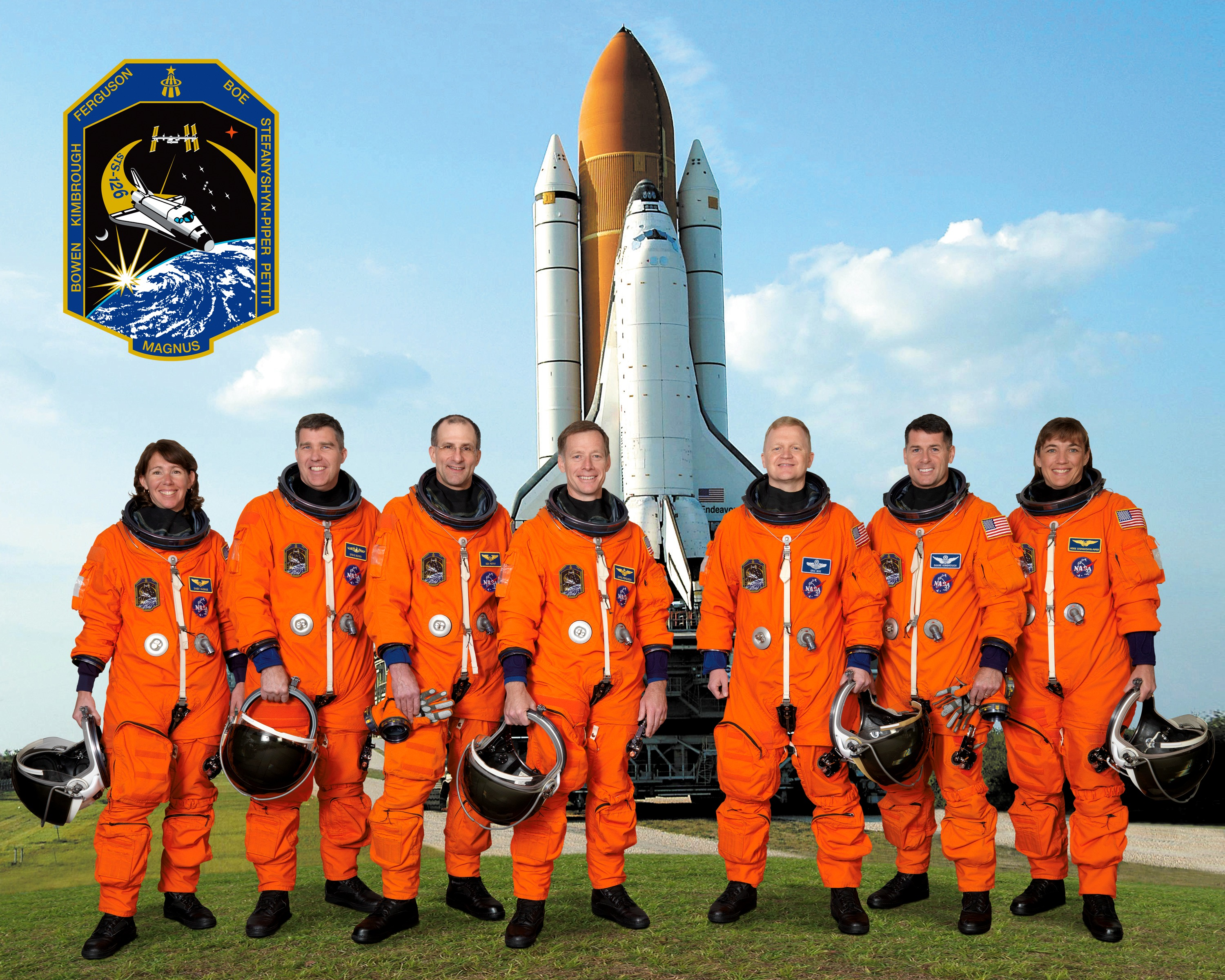 Attired in training versions of their shuttle launch and entry suits, these seven astronauts take a break from training to pose for the STS-126 crew portrait. Astronaut Christopher J. Ferguson, commander, is at center; and astronaut Eric A. Boe, pilot, is third from the right. Remaining crewmembers, pictured from left to right, are astronauts Sandra H. Magnus, Stephen G. Bowen, Donald R. Pettit, Robert S. (Shane) Kimbrough and Heidemarie M. Stefanyshyn-Piper, all mission specialists. Magnus is scheduled to join Expedition 18 as flight engineer after launching to the International Space Station on mission STS-126.